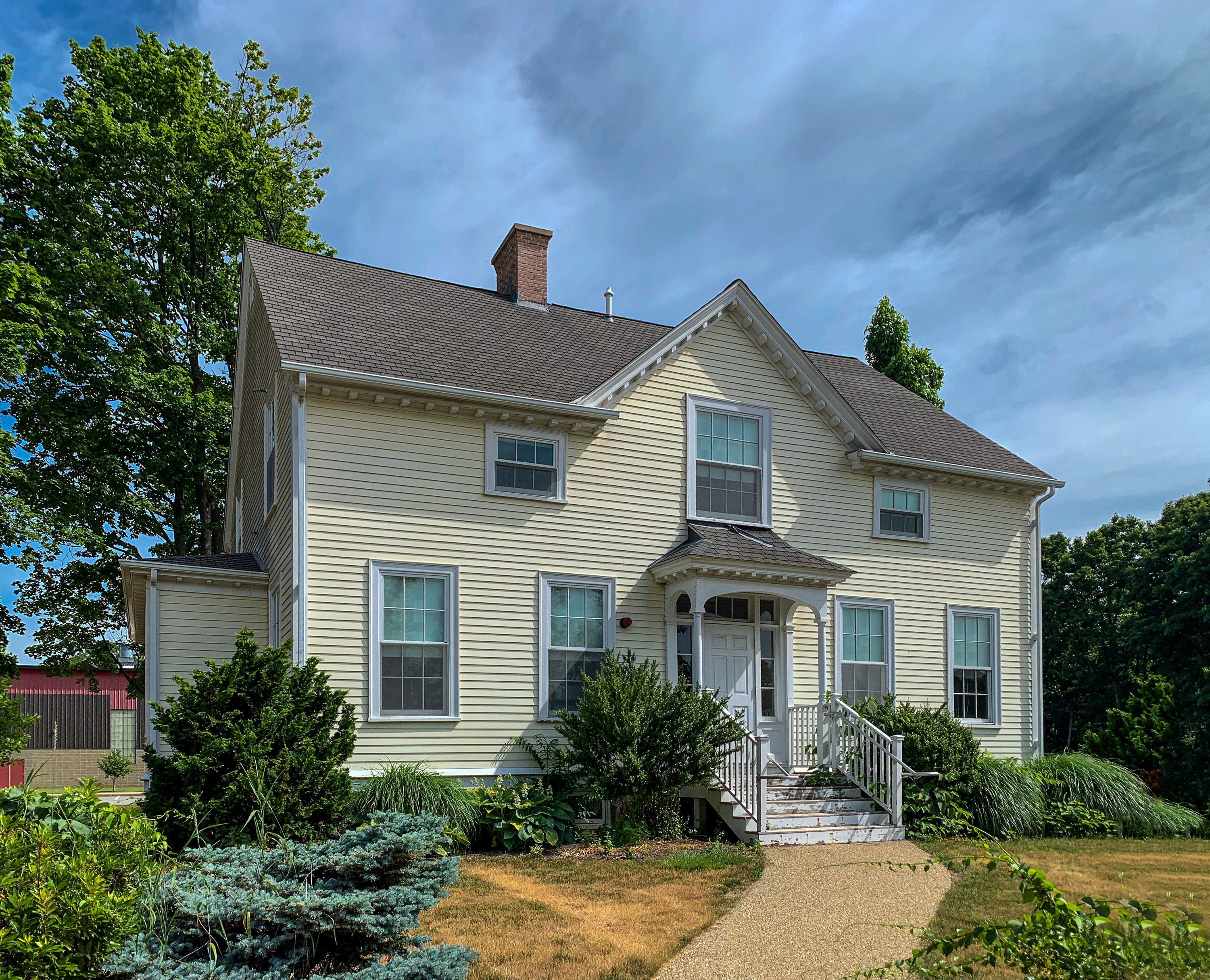 The Yellow Cottage of the former State Home and School for Dependent and Neglected Children, now part of Rhode Island College's East Campus. Providence, Rhode Island.